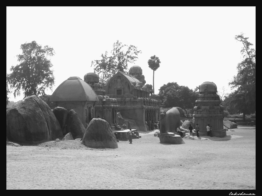 Compltete view of Pancha Ratahas in Mahabalipuram